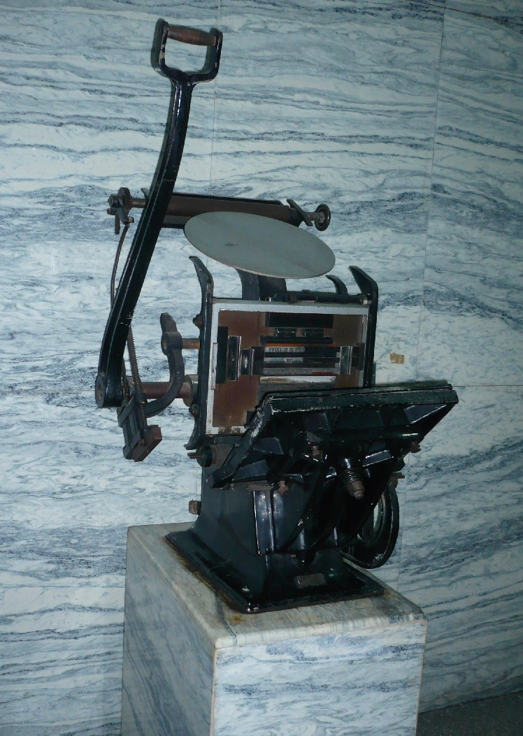 Old printing machine